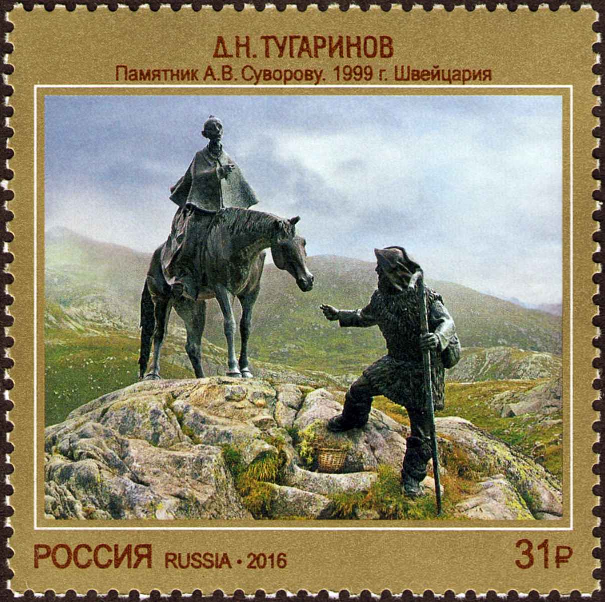 The Contemporary Art of Russia (the ongoing series, issue V). The Monument to Alexander Suvorov by Dmitry Tugarinov. Bronze. 1999. The Gotthard Pass, Switzerland. The sculptural composition depicts the Russian military commander Alexander Suvorov and his Swiss assistant Antonio Gamma crossing the Gotthard Pass during the Swiss campaign. The stamp of Russia, 31.00 ₽, 29 November 2016, PTC Marka Catalogue No 2171. Coated paper, varnish coating, bronze paste. Offset printing. Perforation: comb 11½. Size of the stamp: 50×50 mm. Print run: 228,000.